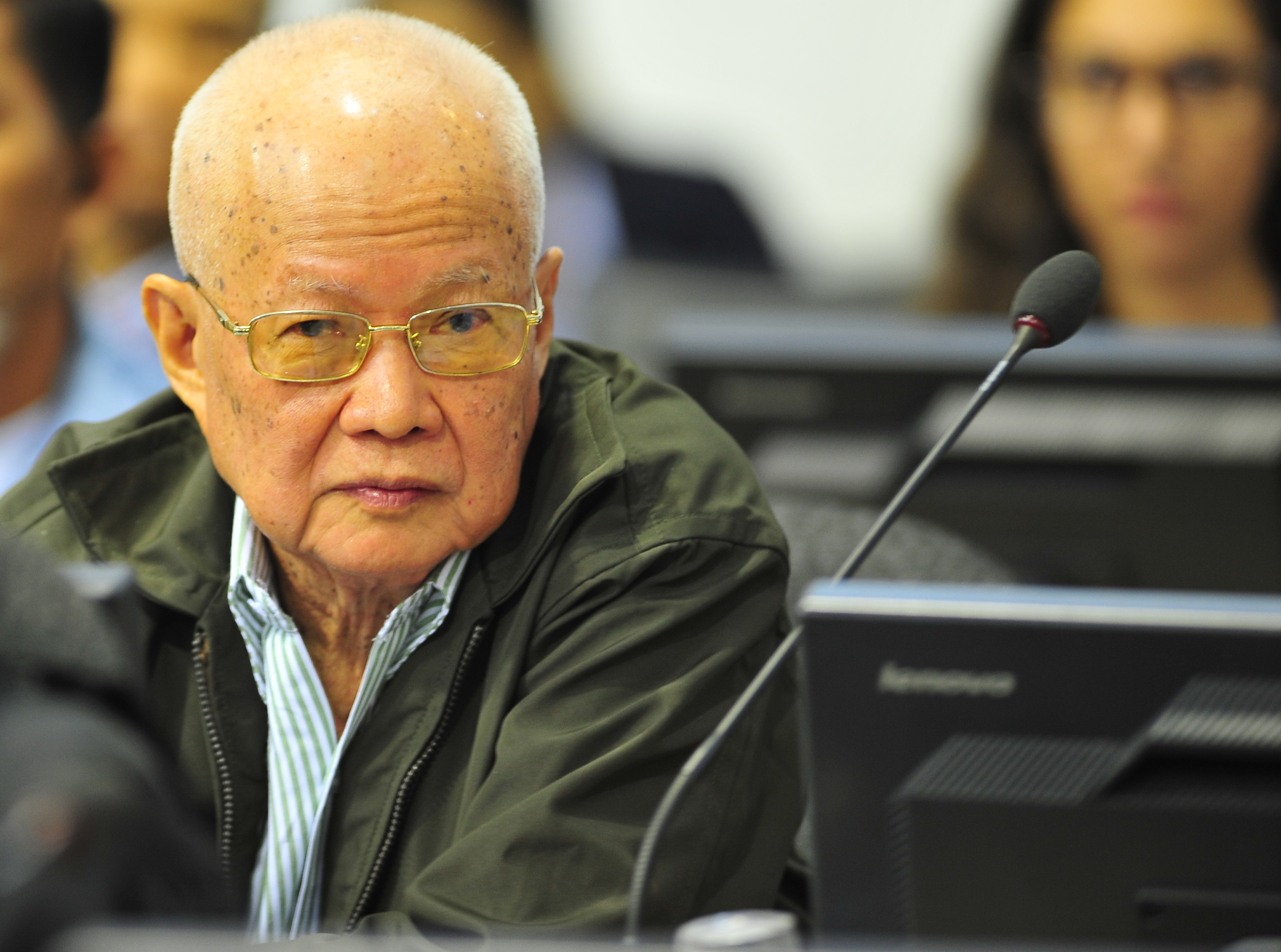 28 June 2011: Khieu Samphan during the second day of the Case 002 Initial Hearing